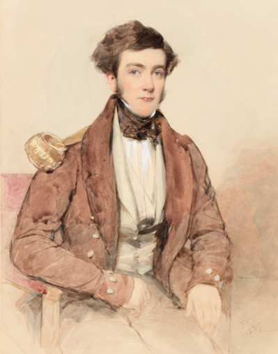 Captain Owen Stanley RN Materialsː Wood and paper Measurementsː 265 mm (H)196 mm (W)